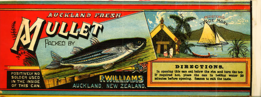 Another canned mullet label from the Auckland Customs records. F. Williams of Auckland applied for a bonus under the Fisheries Encouragement Act 1885 [full title - An Act for the Establishment of Fishing Towns and Villages, and further to encourage Fisheries in New Zealand, and to promote the Production of Canned and Cured Fish for Export.] This colourful label has a local scene, including Rangitoto in the background, and claims that “Positively no solder used in the inside of this can.” Held at Archives New Zealand Auckland Regional Office, BBAO 5544/197a 1889/1205 Henry S McKellar, Secretary and Marine, and Inspector of Customs, Wellington - F Williams - his intention to export fish for bonus, 1889 Material from Archives New Zealand Te Rua Mahara o te Kāwanatanga